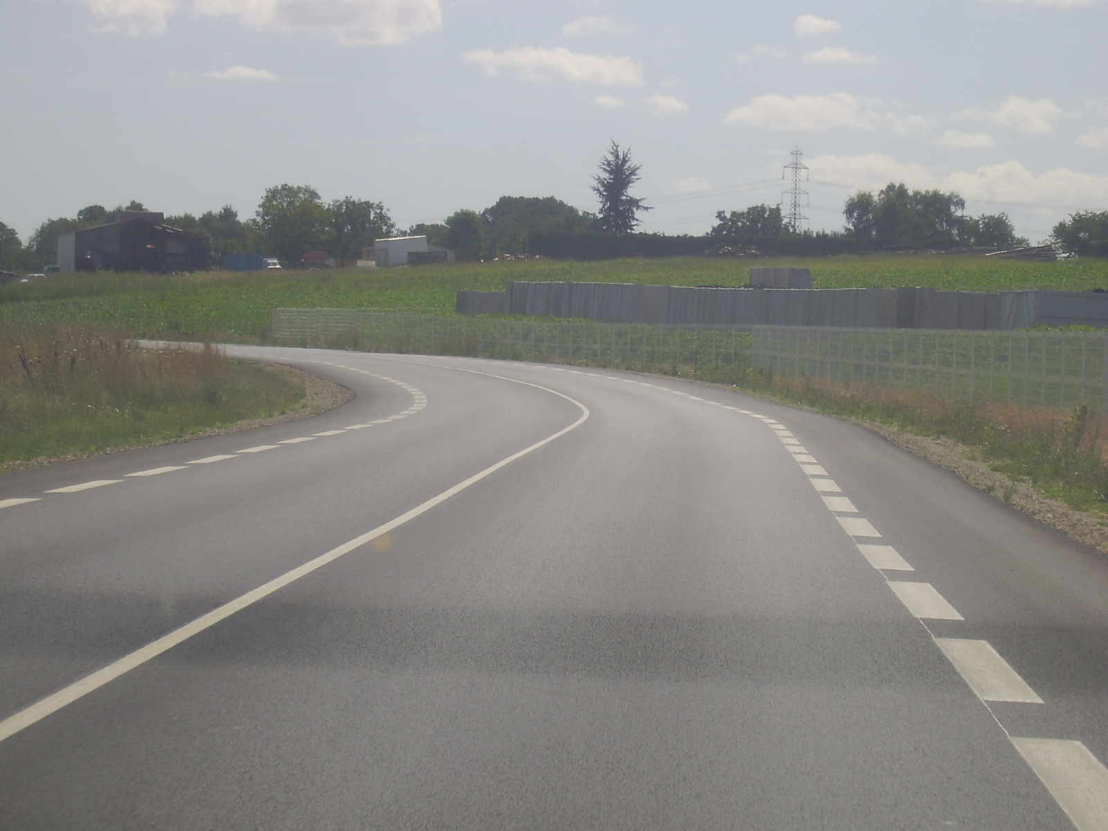 Departmental road 1093 between Joze and Les Martres-d'Artière (Puy-de-Dôme, Auvergne [-Rhône-Alpes since 2016], France), in the direction of Pont-du-Château. Note cycleway existing since 2008. Photo taken inside a car.